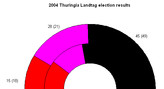 Results of the 2004 Landtag election in Thuringia SDP in red, CDU in black, PDS in purple Created by Willhsmit.